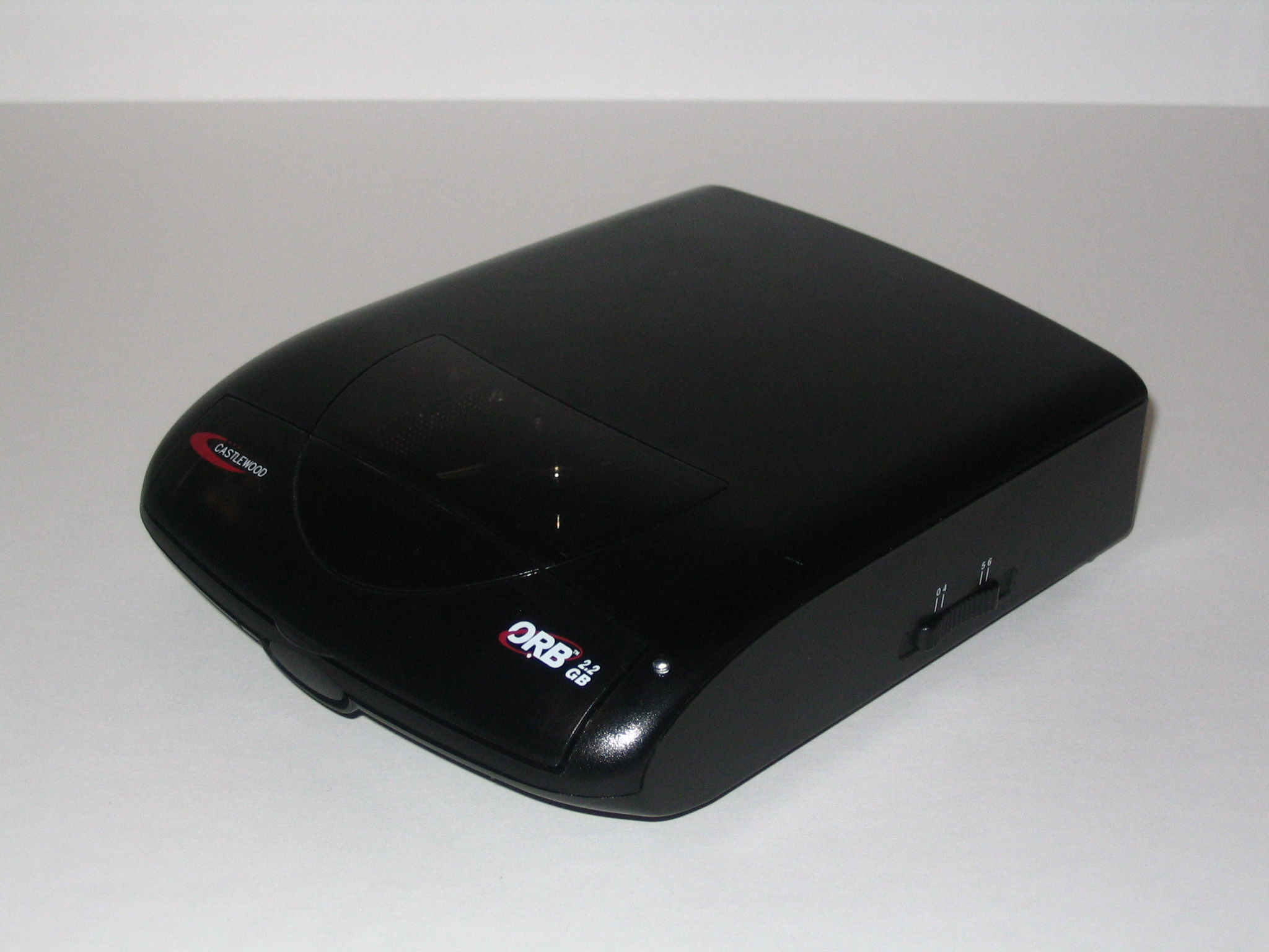 Orb Drive - External SCSI - 2.2GB Author: ckmac97 Date: 05/06/2006